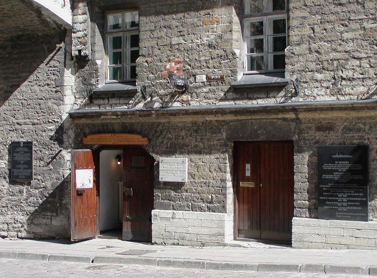 Photo of Tallinn maritime museum entrance